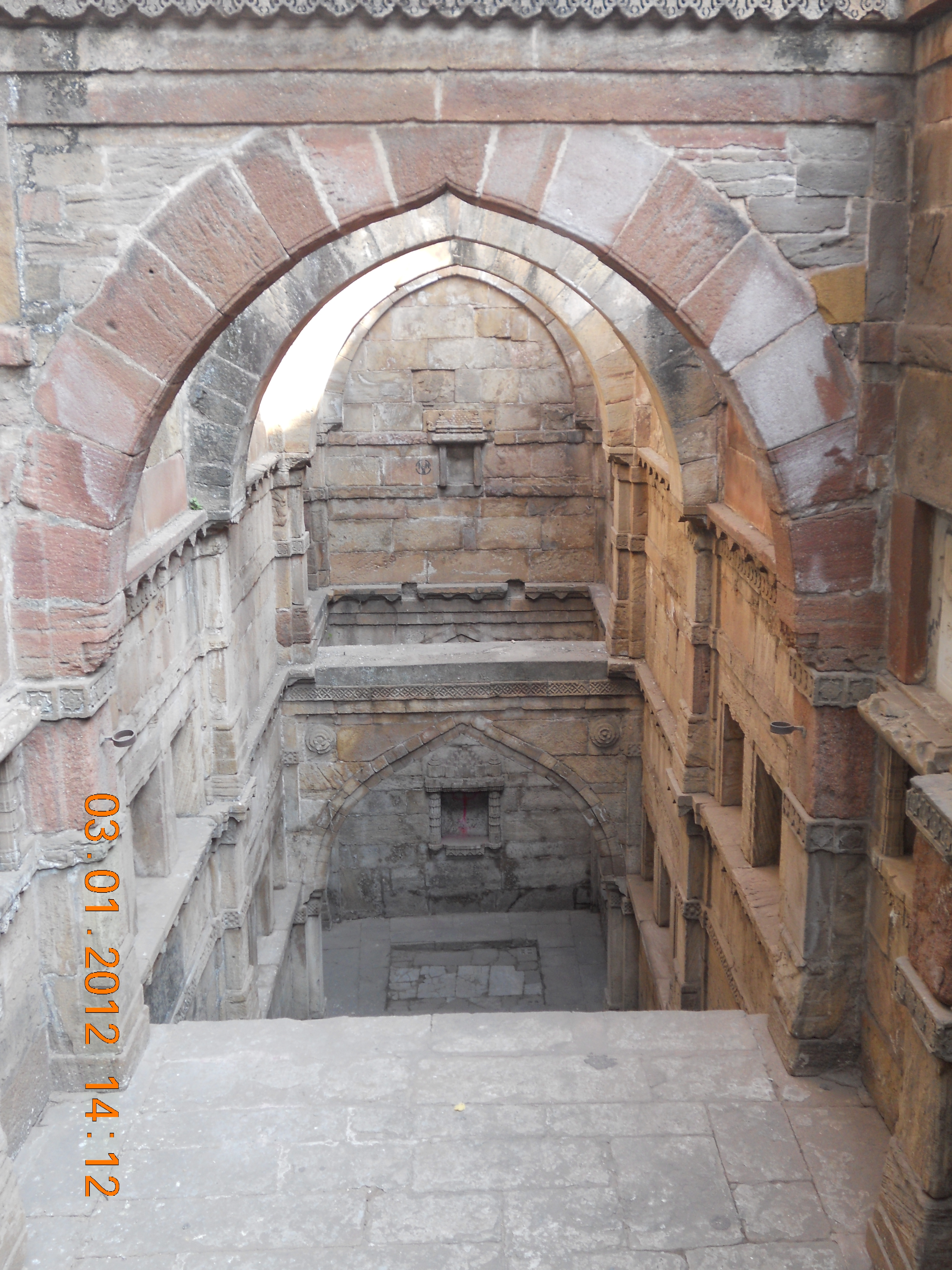 Amritvarshini Vav, Ahmedabad Philanthropy in a period of decline According to Sanskrit and Persian inscriptions in this stepwel. it was built in V.S. 1779/ A.H. 1135 (A.D. 1723) by Raghunathdas. Sparsely ornamented. it is notable for its L-Shaped plan and the bracing arches which have different shapes at the two storeys and in the kuta (pavilion tower) before the well shaft. Raghunathdas was diwan to Haidar Quli Khan. governor of Gujarat during the declining period of Mughal rule.